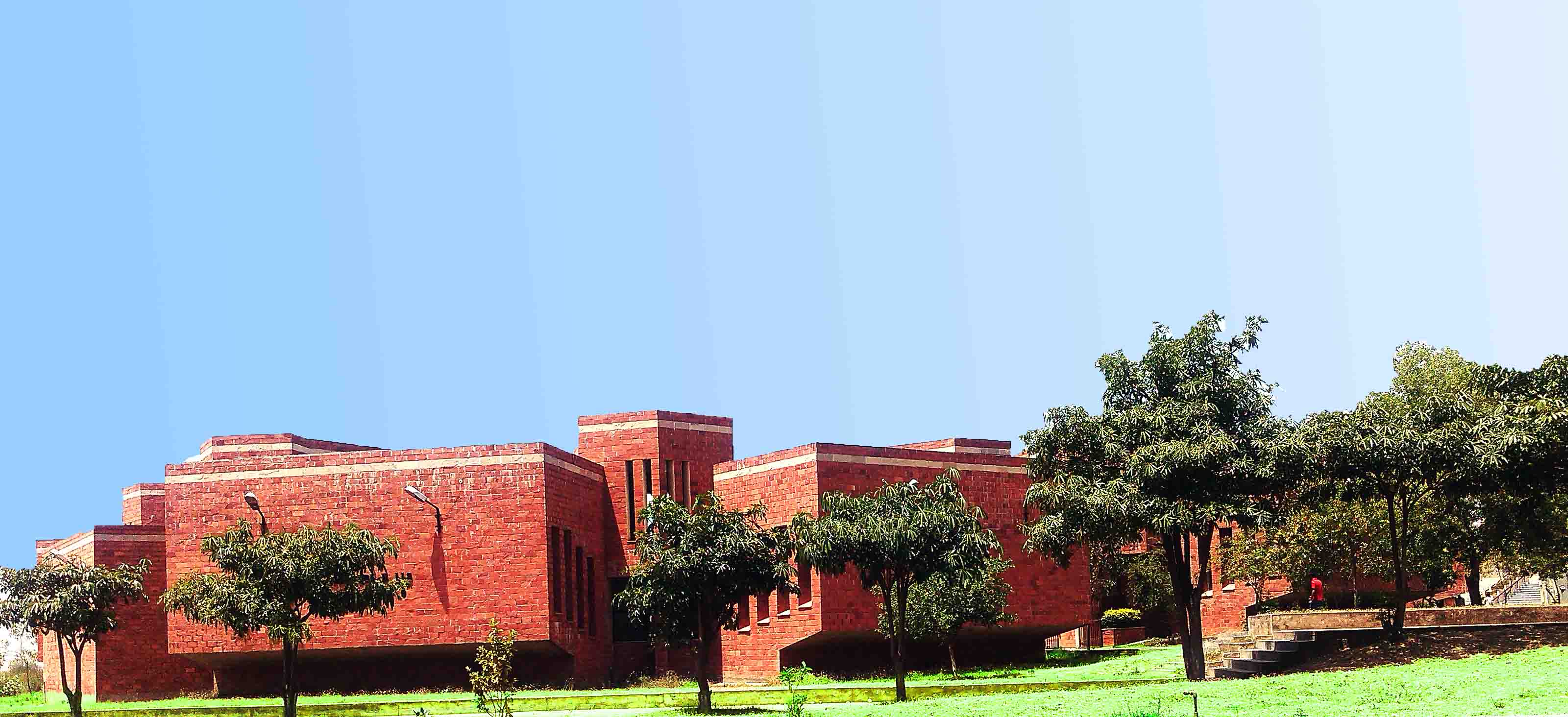 Common Lecture Halls, GCET Jammu